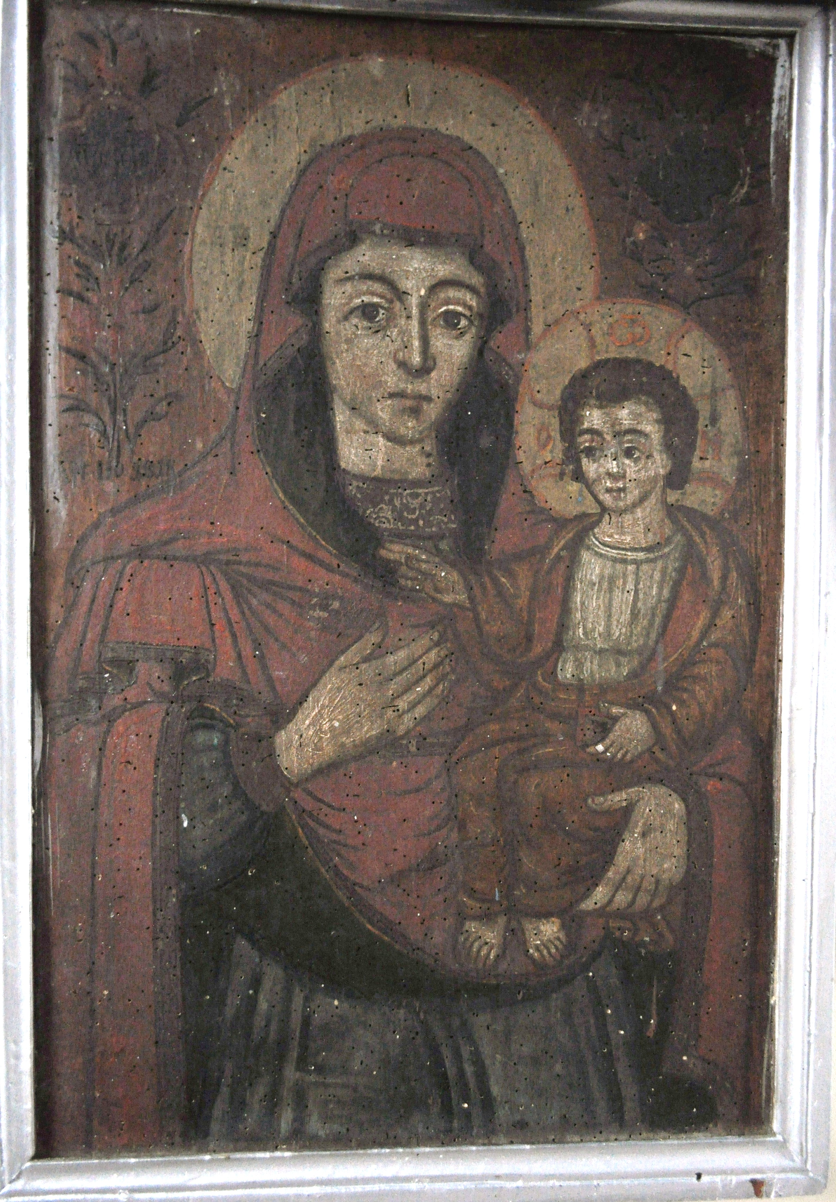 Wooden church in Baia, Arad county, Romania